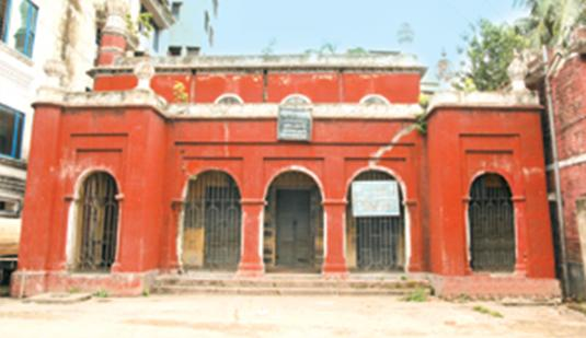 Northbrook Hall